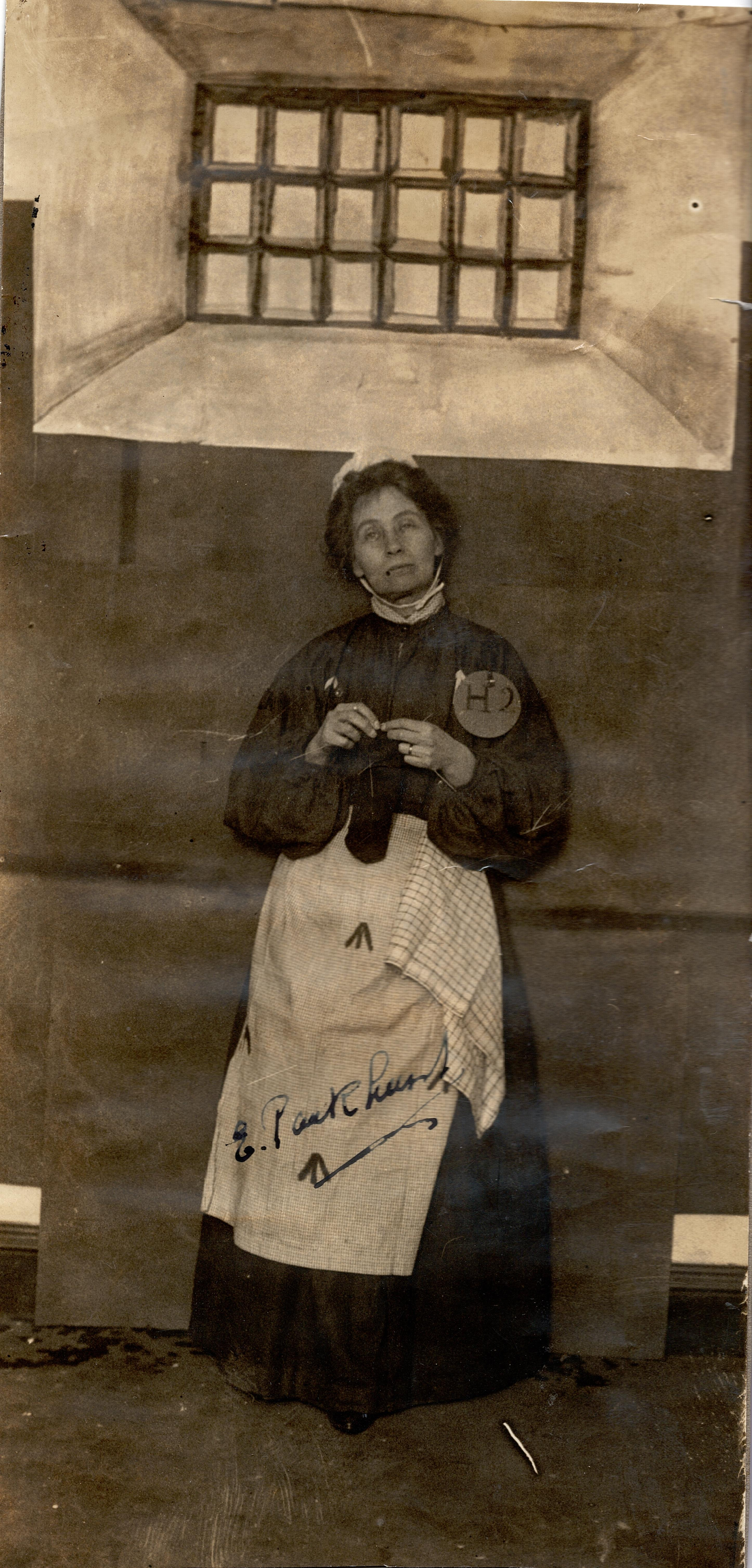 Emmeline Pankhurst in 1909